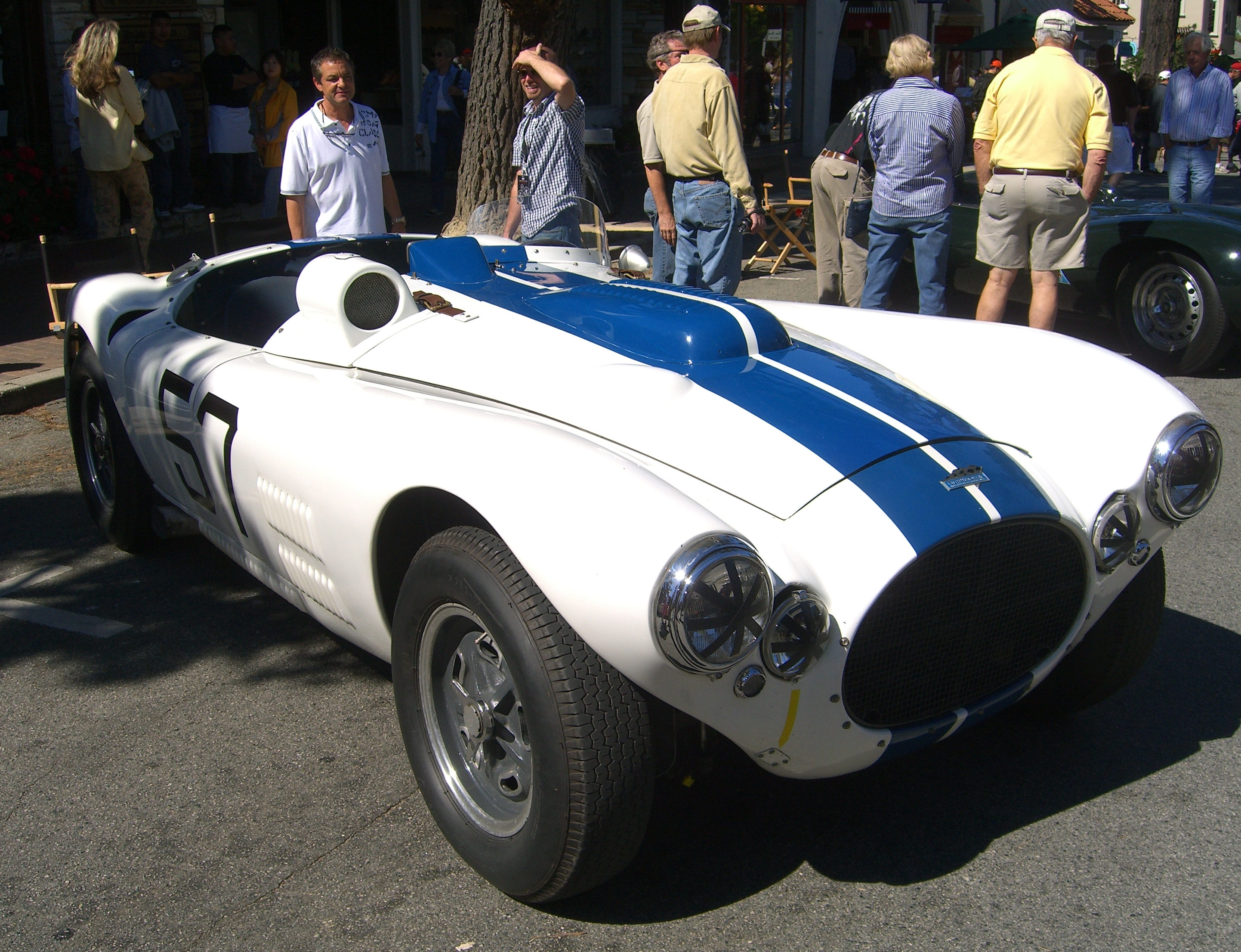 1952 Cunningham C4R sports-racing car, chassis 5217R.